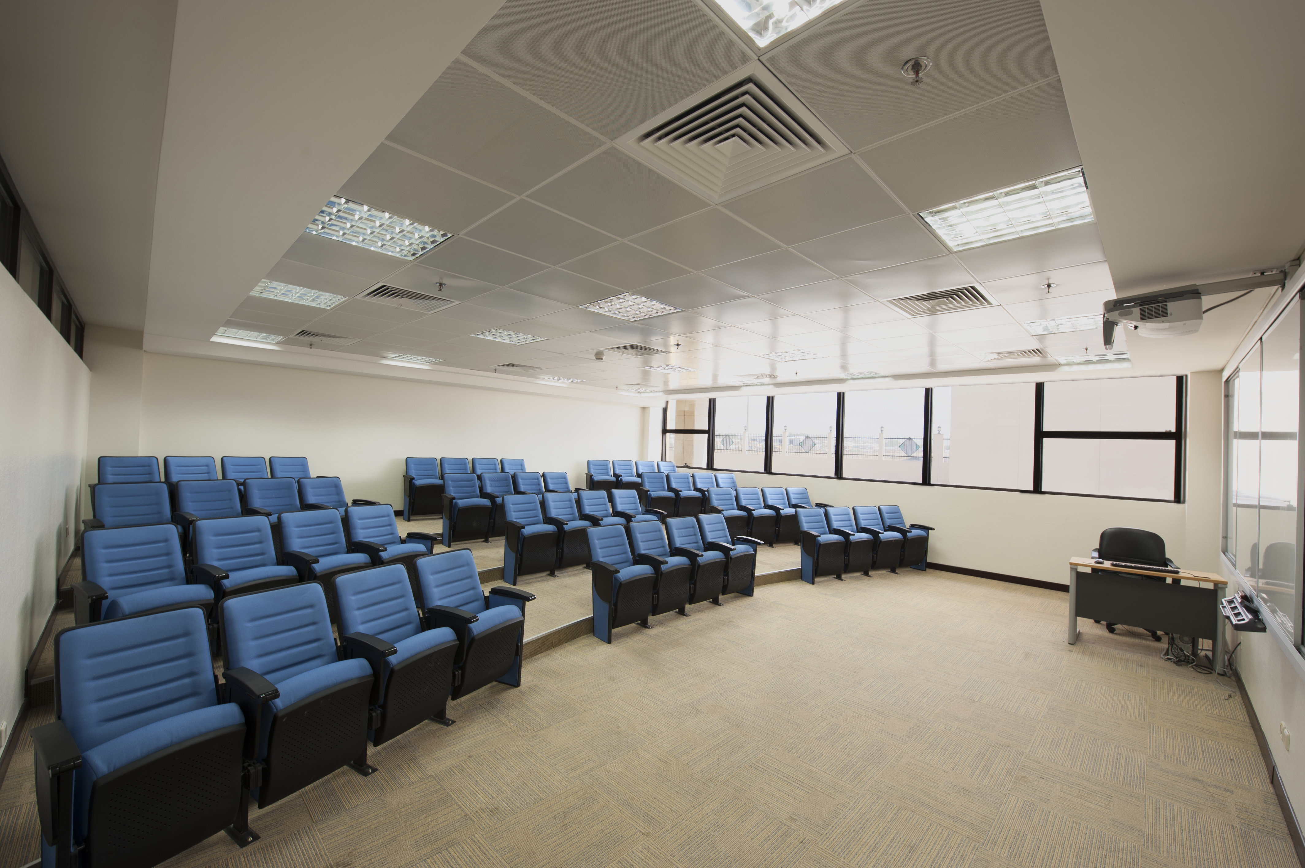 Class room type B